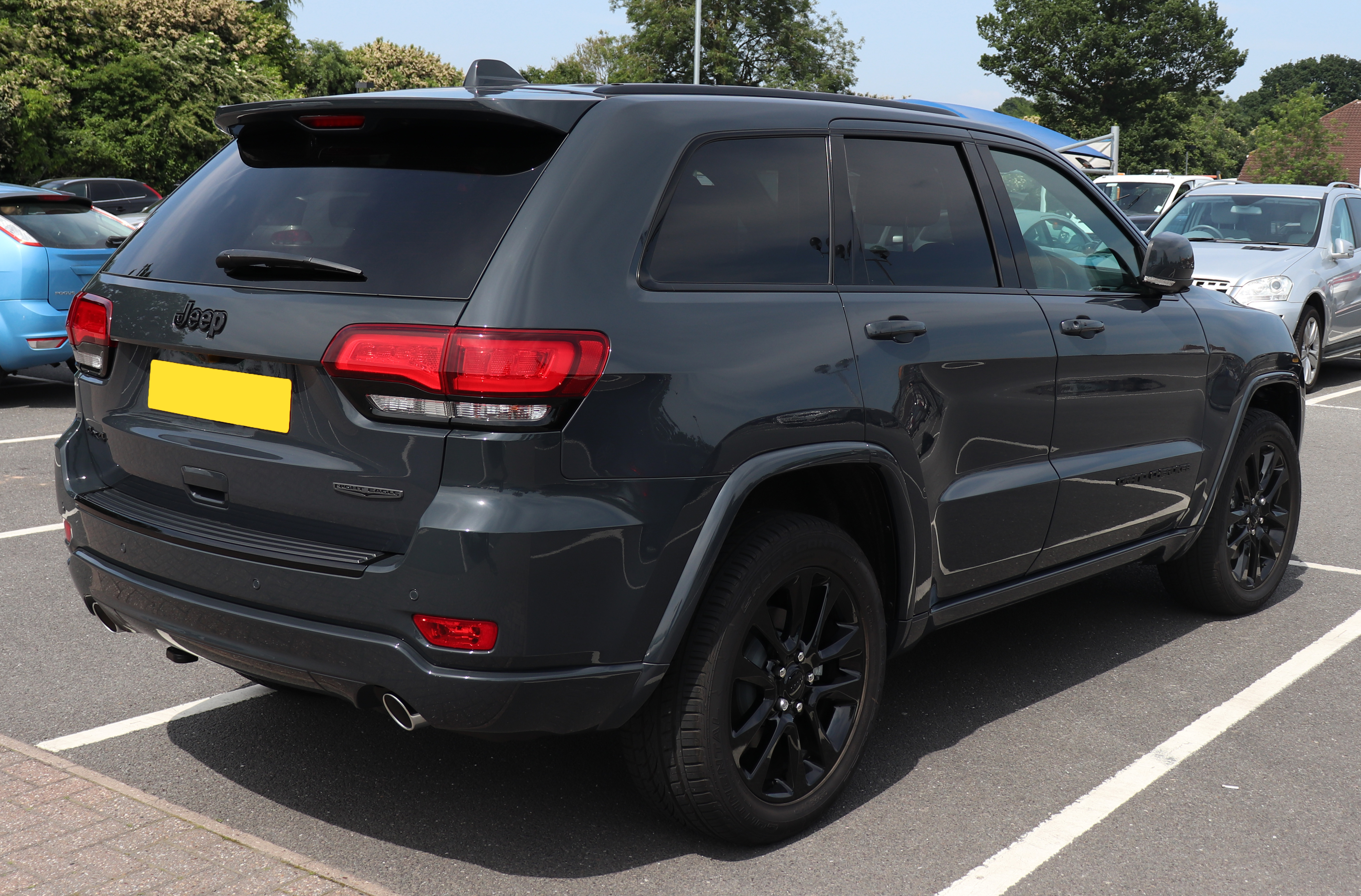 2018 Jeep Grand Cherokee Night Eagle 3.0 Rear Taken in Solihull